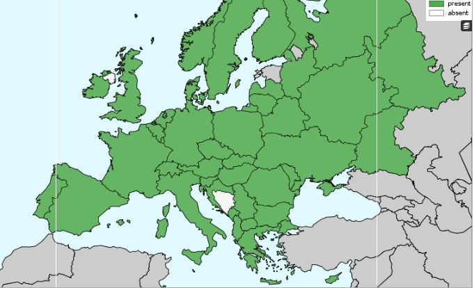 Rasprostranjenje vrste u Evropi (Fauna Europaea)